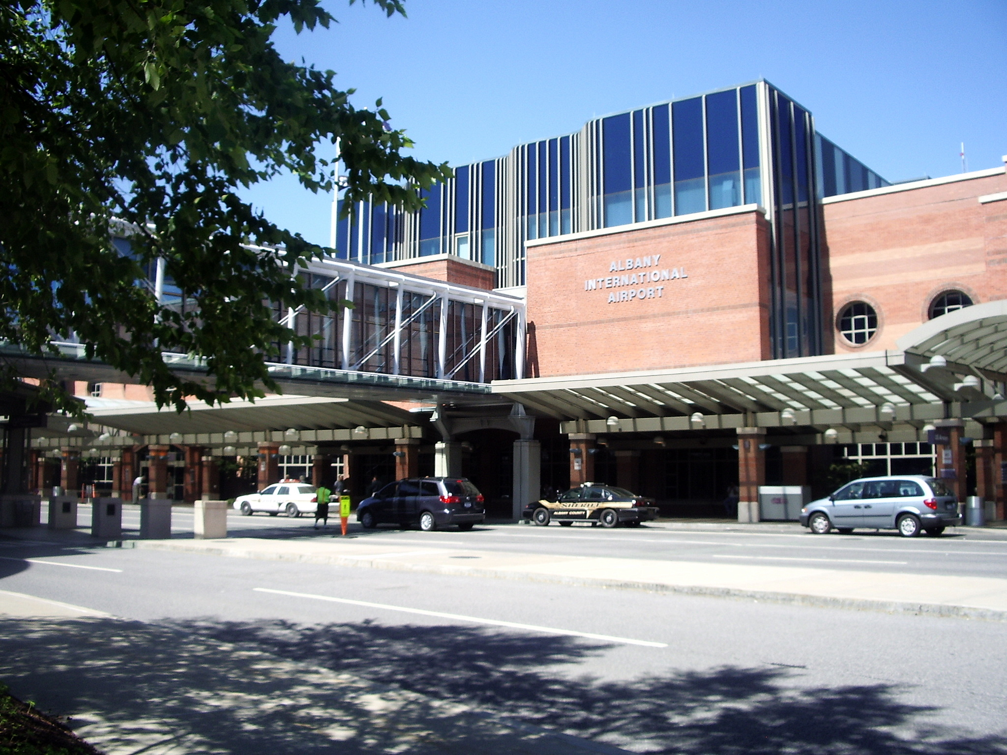 Main entrance to Albany International Airport in Colonie, New York, United States, near New York's capital of Albany.